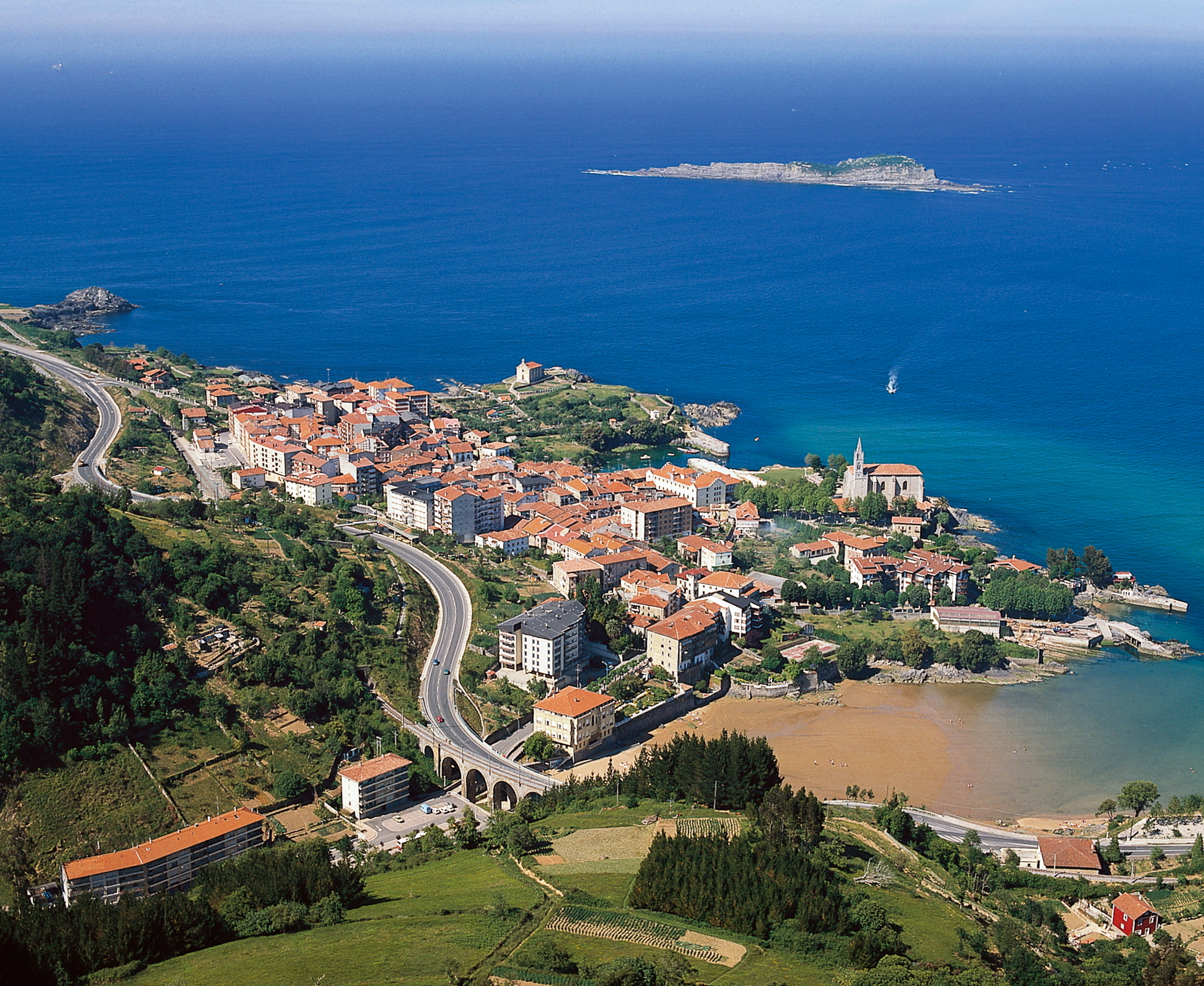 Mundaka and Izaro island. Bizkaia, Basque Country. 12th december 2000.